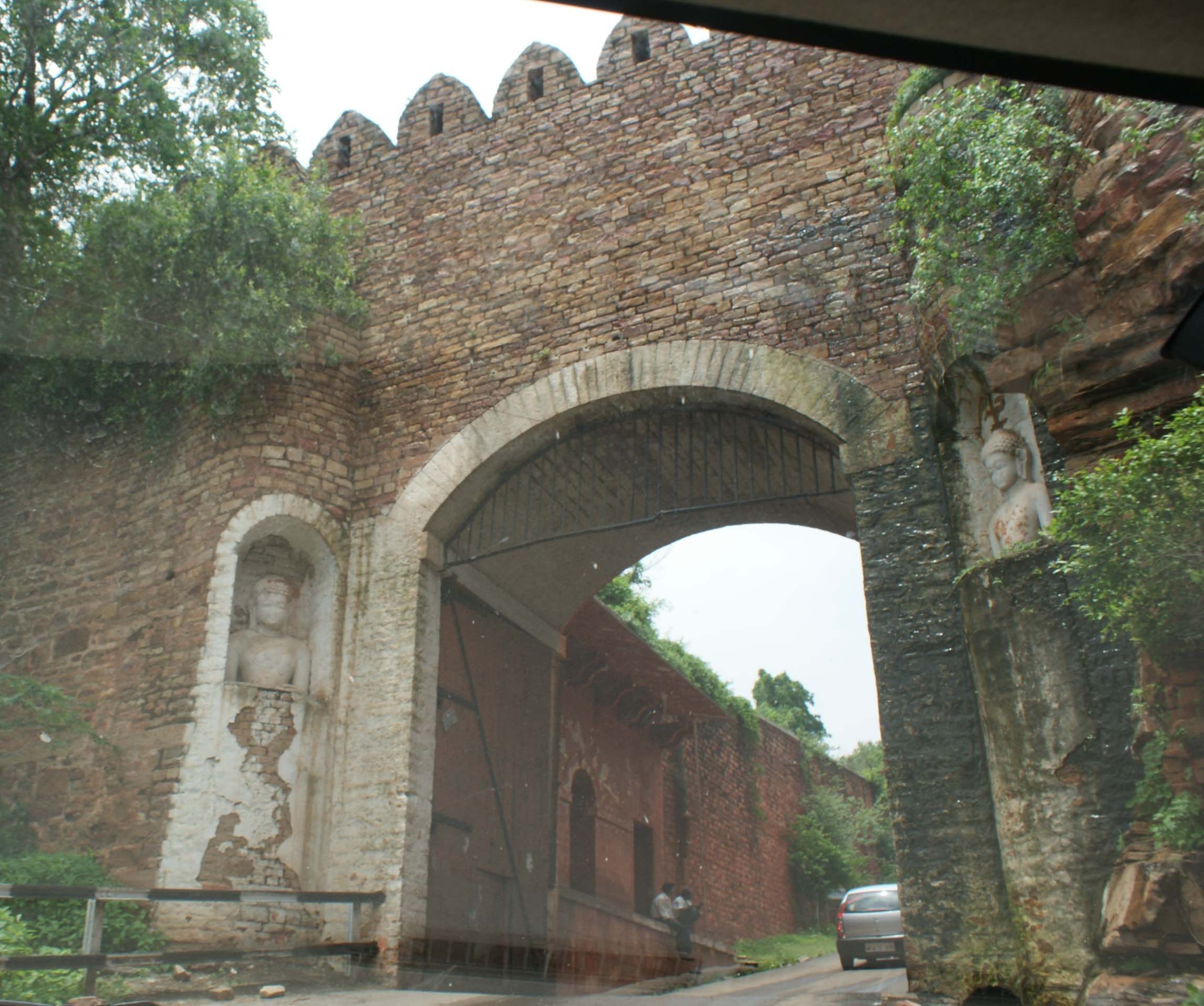 Gwalior door